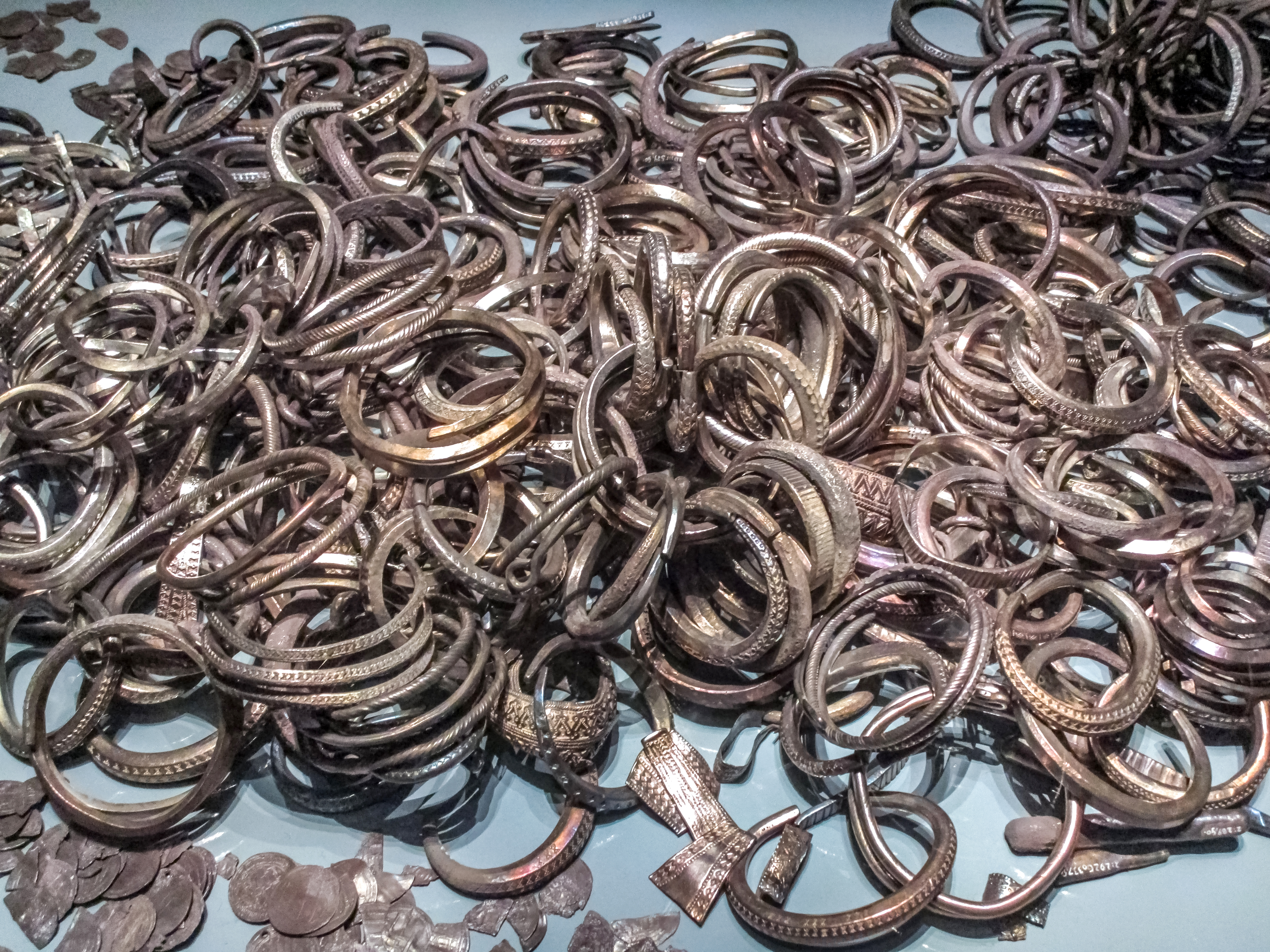 Closeup of silver hoard No 2 from the Spillings Hoard at Gotland Museum.